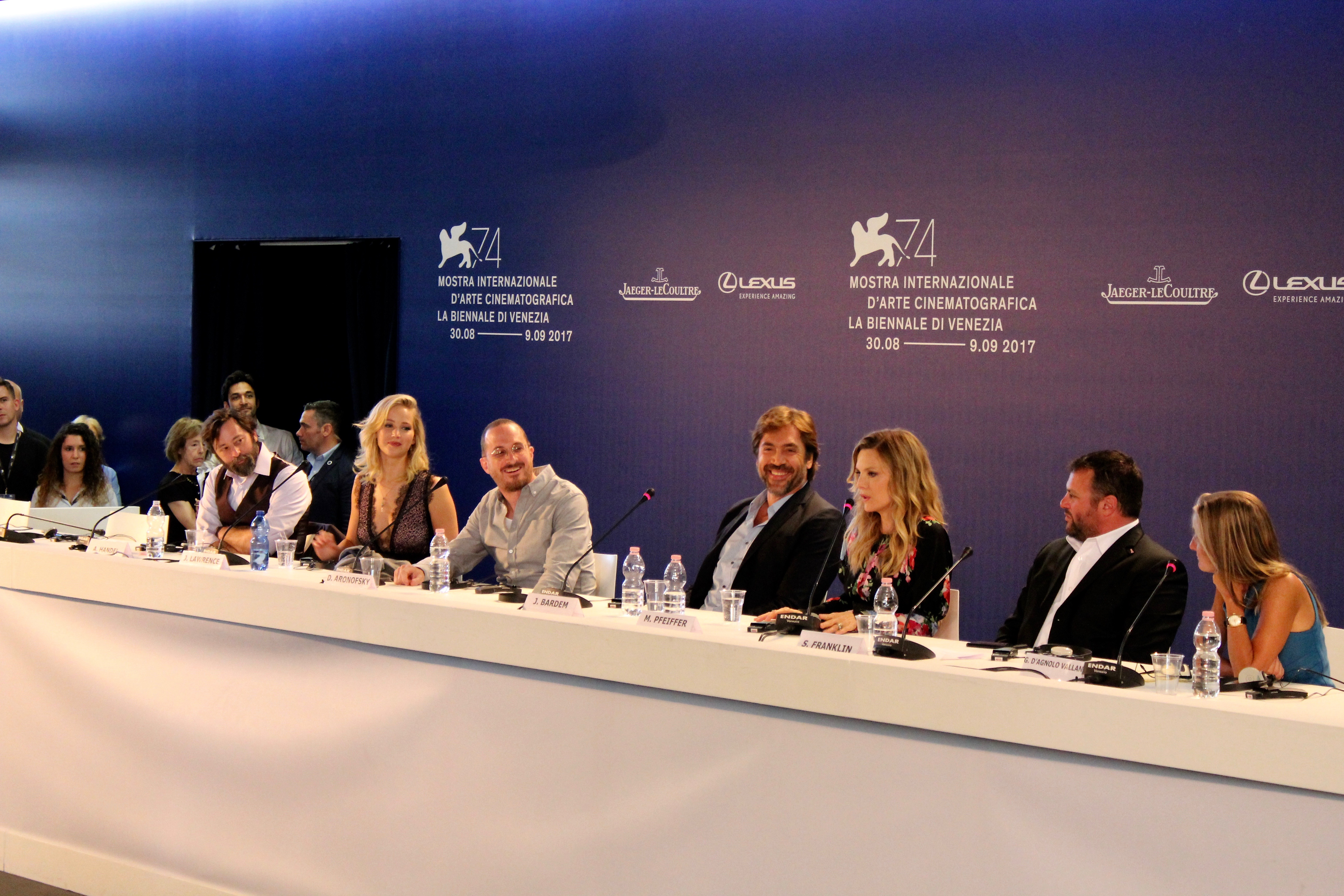 The cast and the director of the movie "Mother!" during a press conference in Venice, Italy